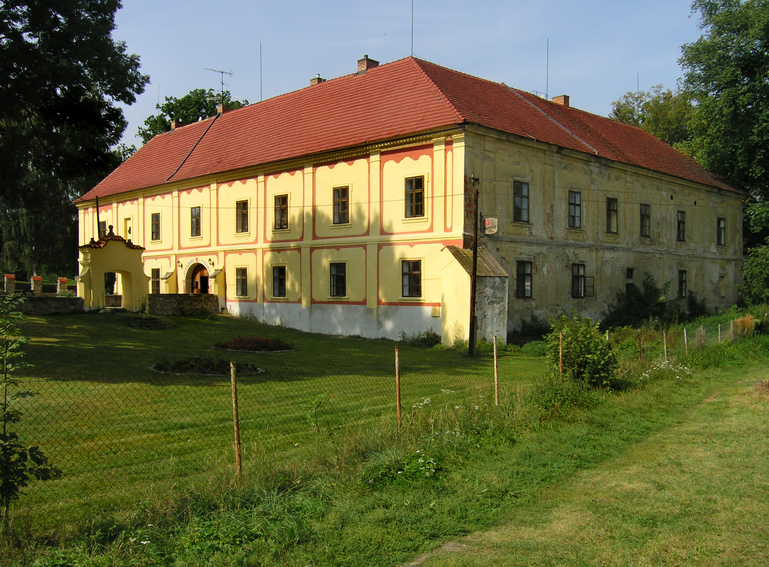 Castle in Lešany, Czech Republic